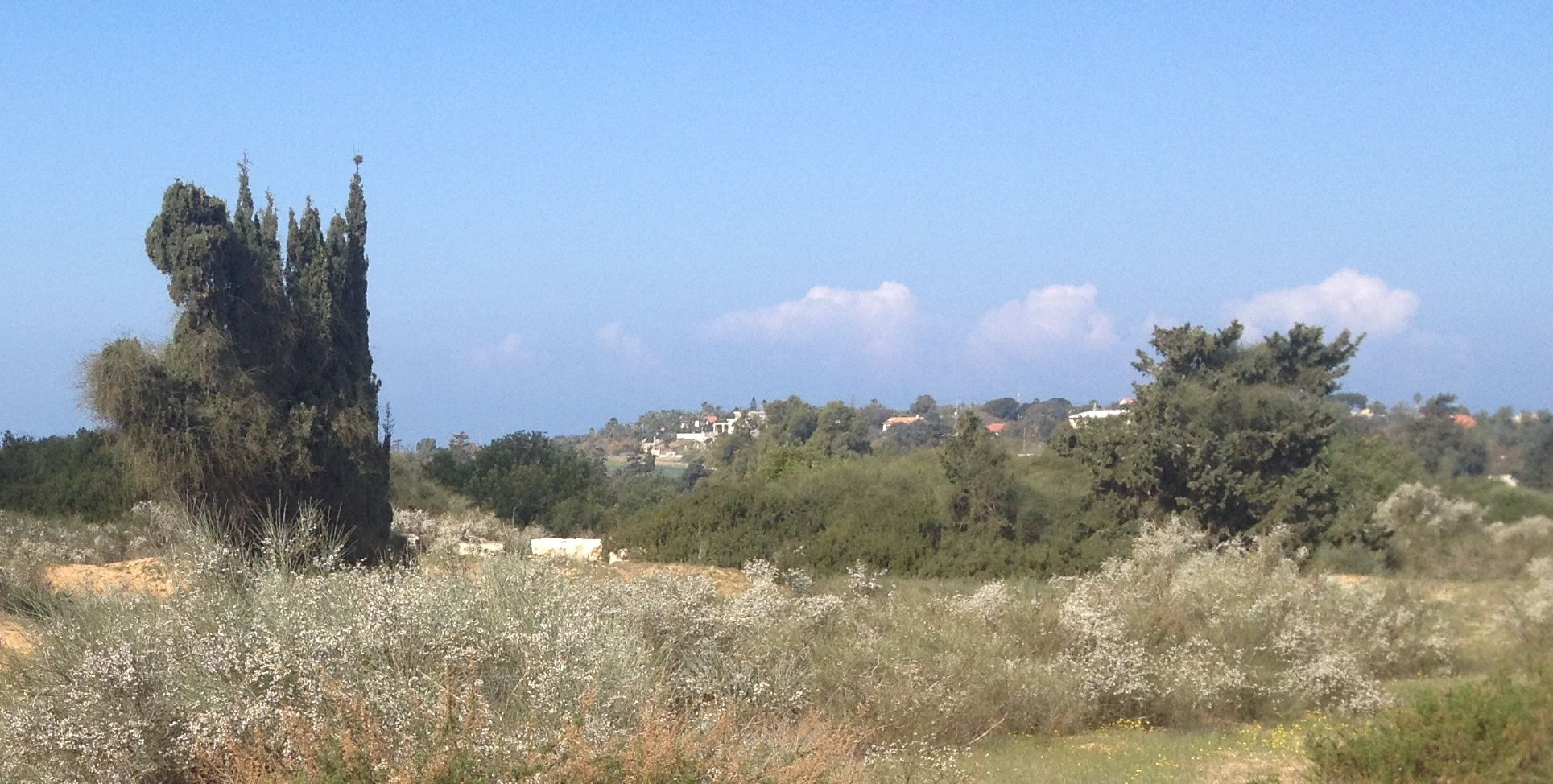 National park of Israel in avichail, near natanya